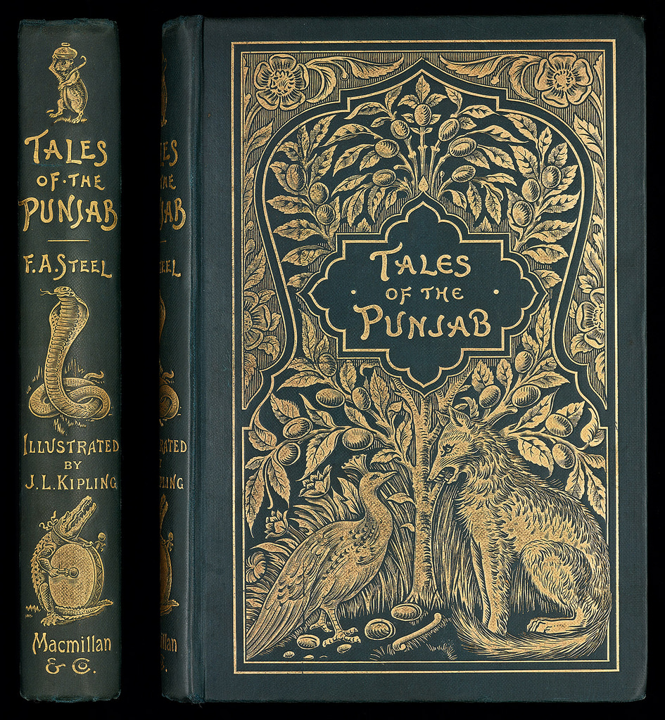 File name: ILS-717736Binder label: G 398.2 STE 1894Title: Tales of the PunjabDate issued: 1894Genre: Book coversNotes: (Author) Flora Annie SteelCollection: Victorian publishers' bookbindingsLocation: National Library NZ on The Commons collectionsRights: No known copyright restrictions.